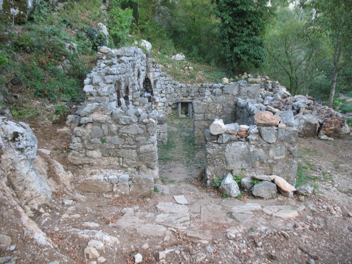 Church of Sveti Jovan Glavosek in Crnica gorge near Paraćin,Serbia.